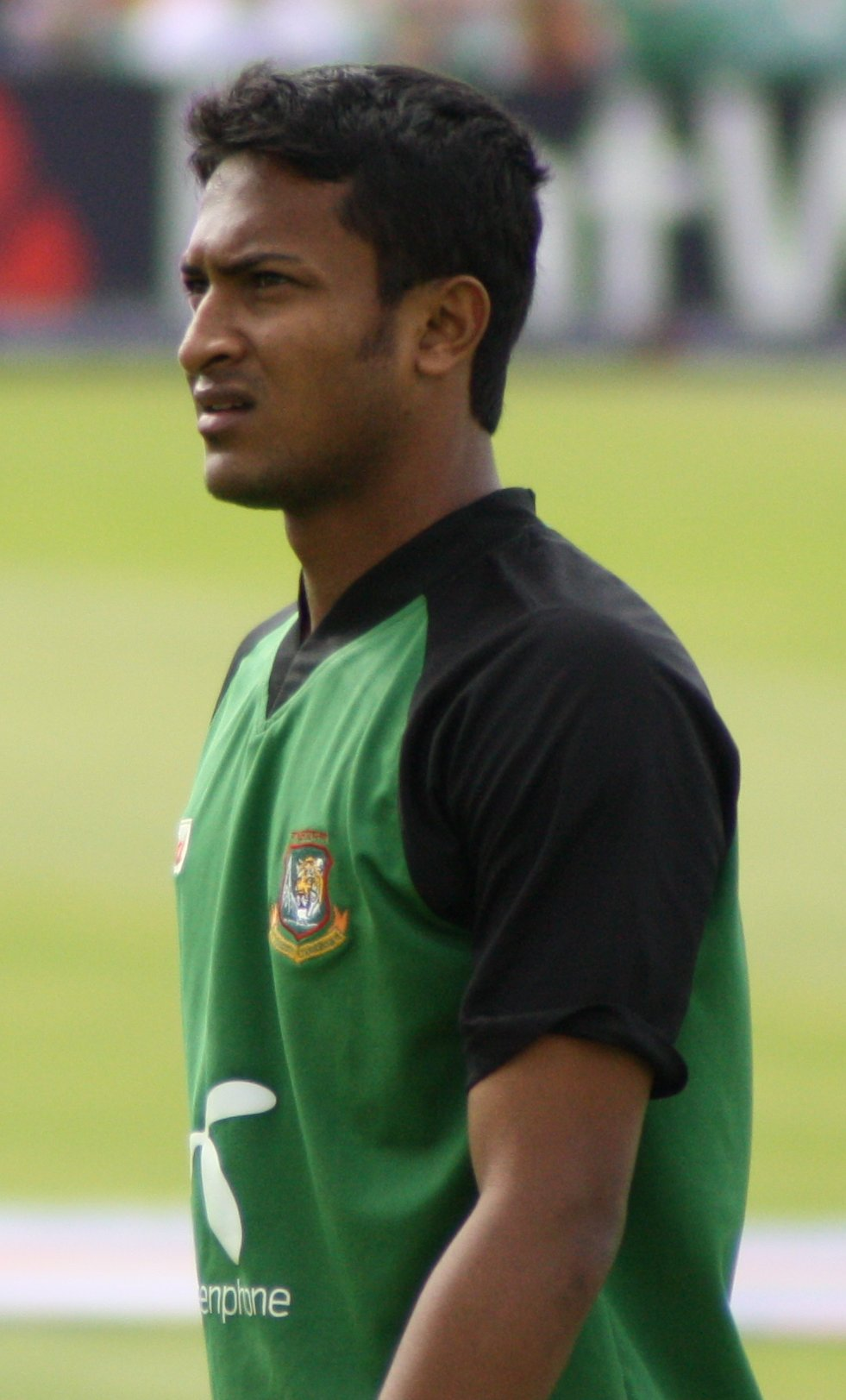 Shakib Al Hasan warming up prior to the 2nd ODI against England at the County Ground, Bristol. Bangladesh recorded their first victory over England in any form of cricket in this match.